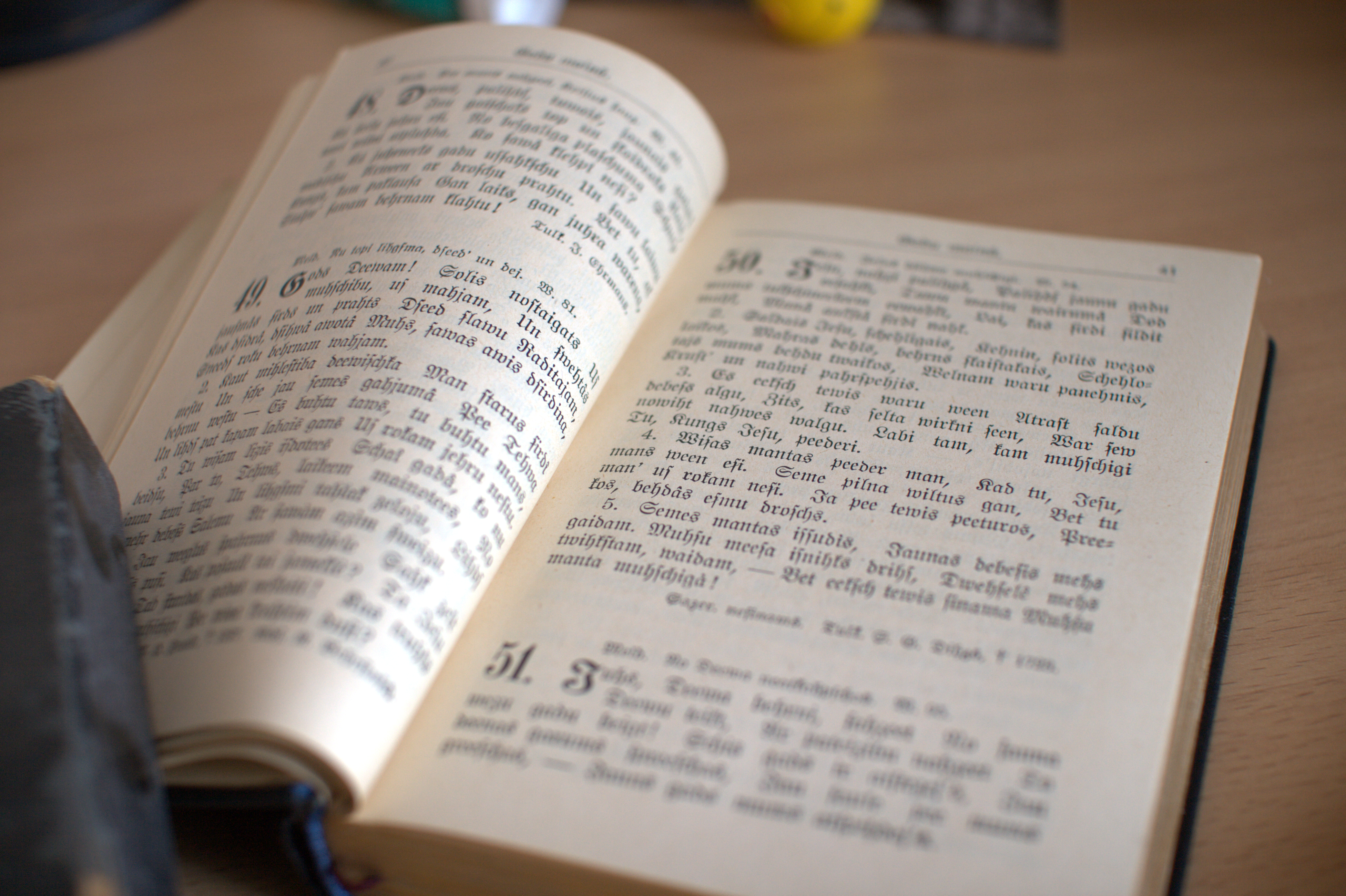 Latvian bible written in old orthography.